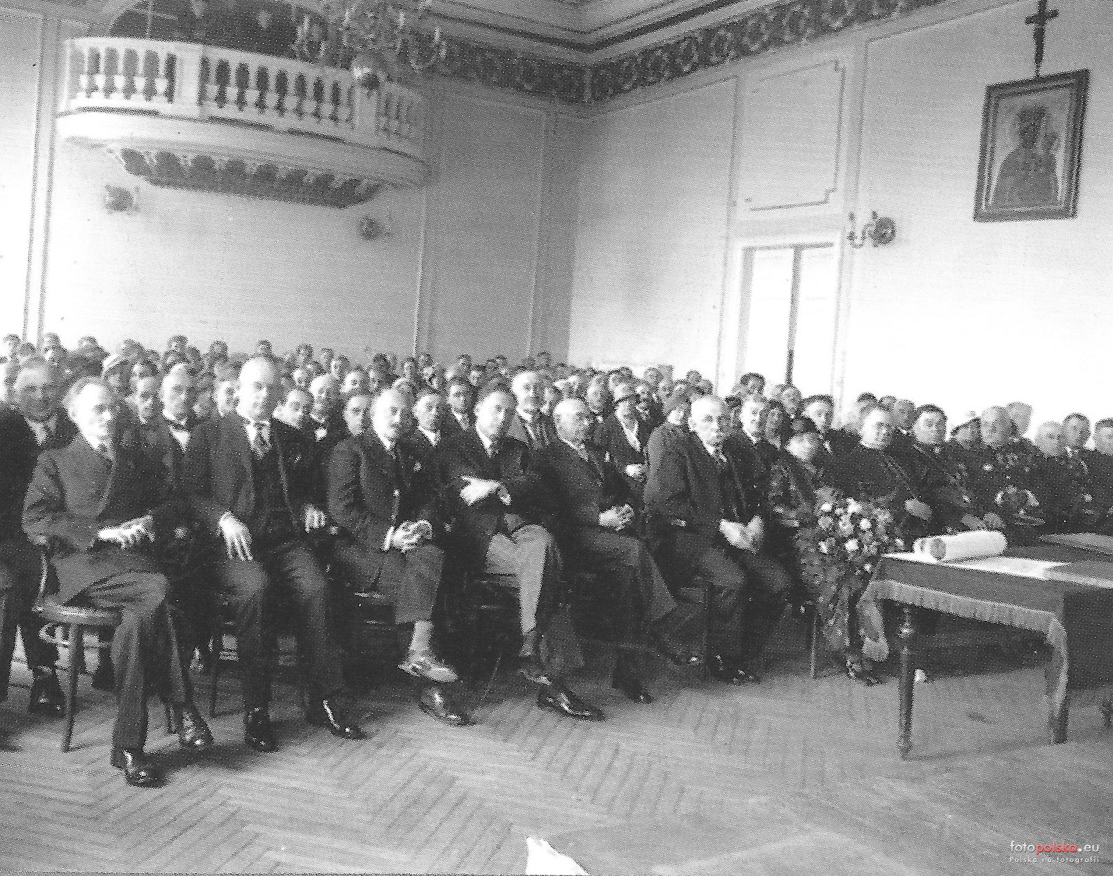 Radom City Council, 1927 - 1939